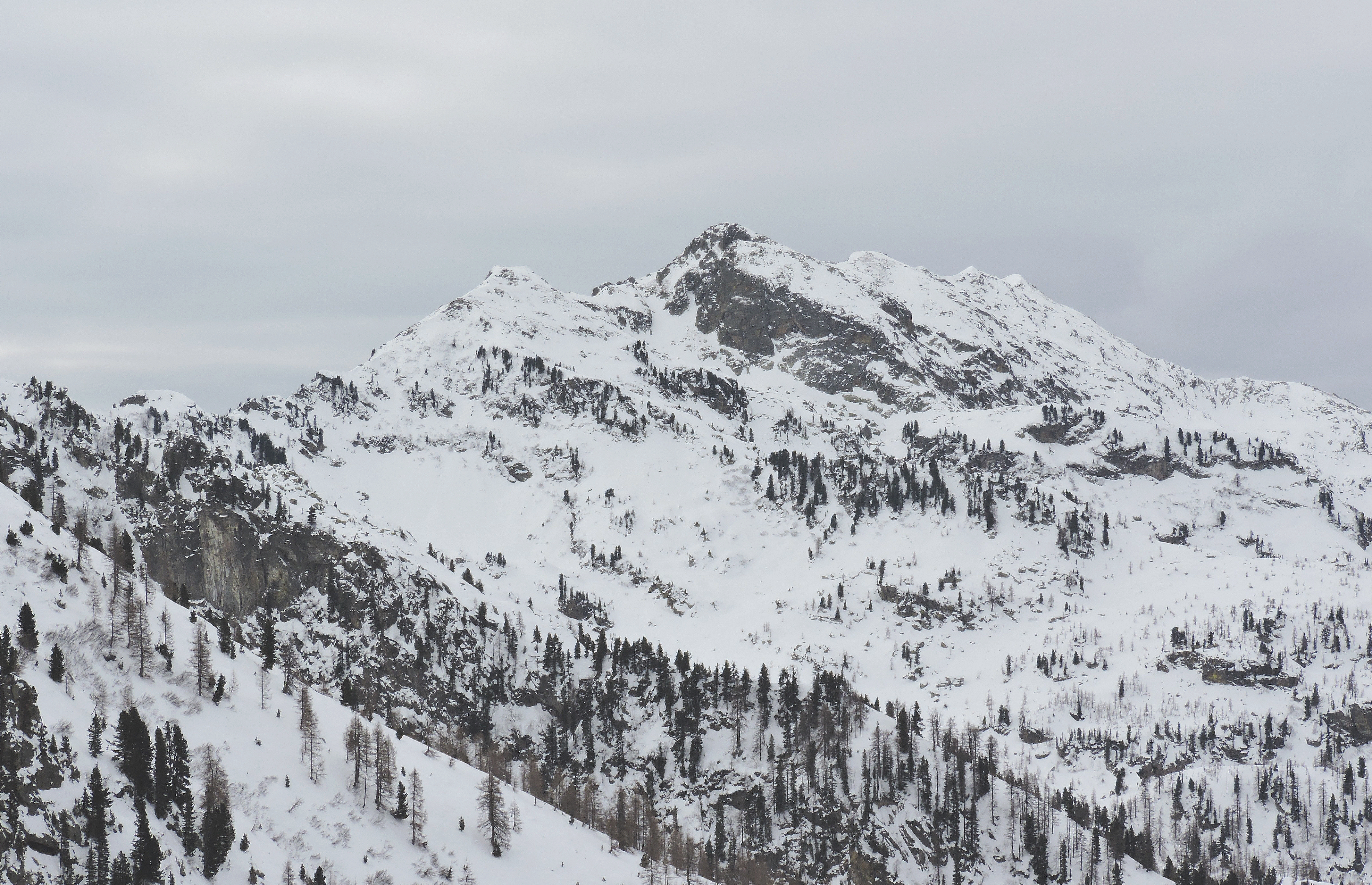 Monte Bechit from Mont-Leretta (Italy)